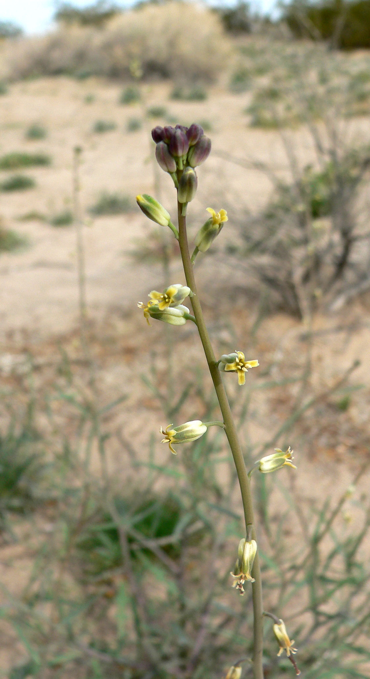 Streptanthella longirostris in sand below hills by Soda Dry Lake, 3 km south of Baker, California